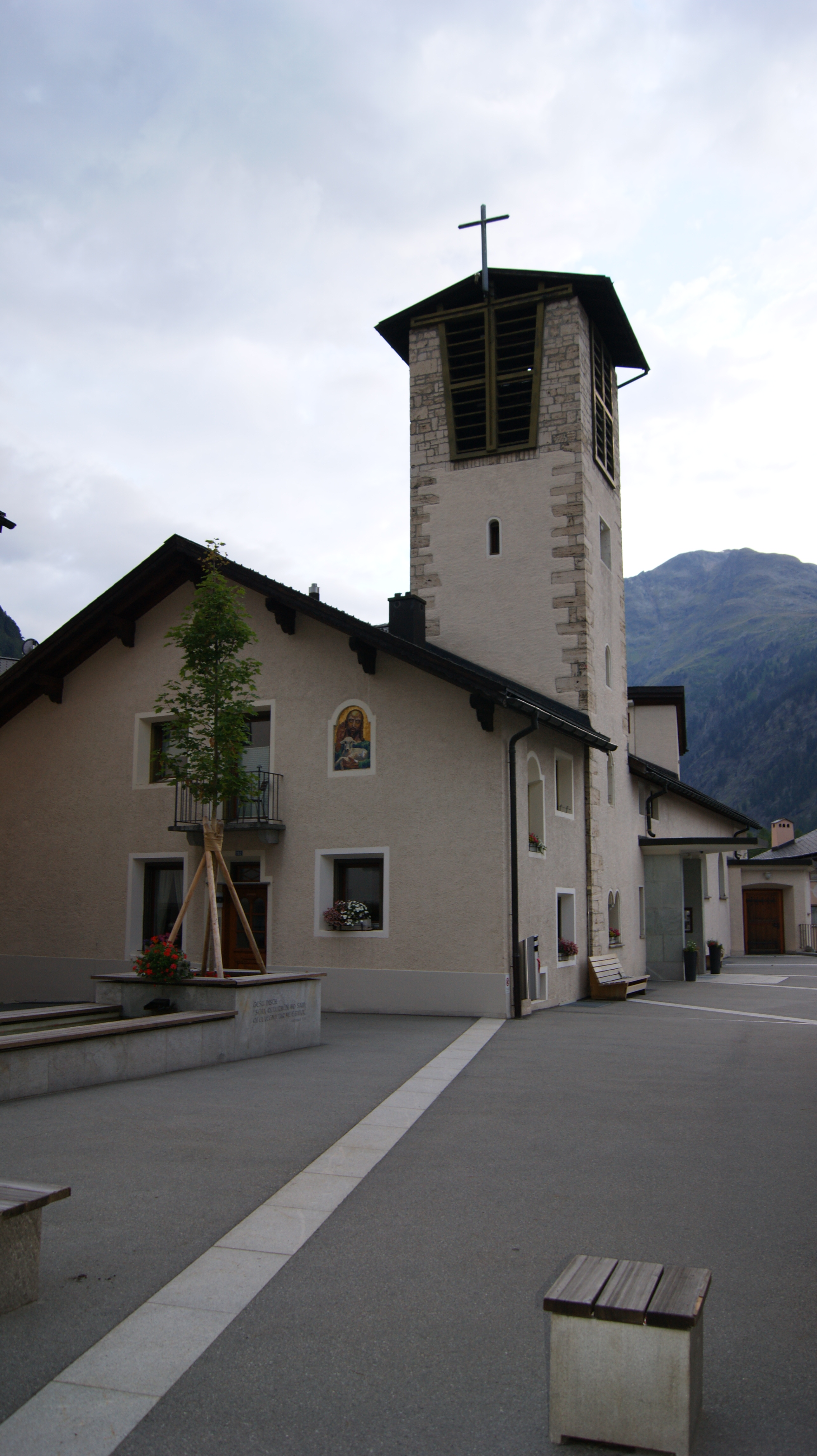 Church of San Spiert in Pontresina, Grisons, Switzerland.